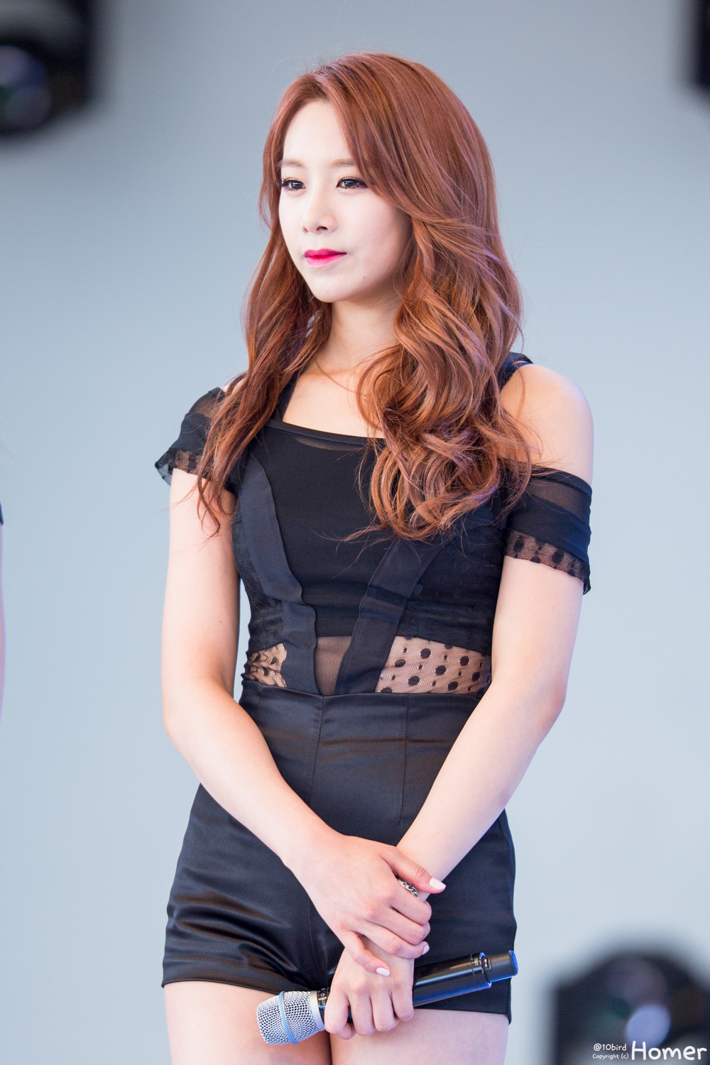 Uji of BESTie visited public broadcasting show